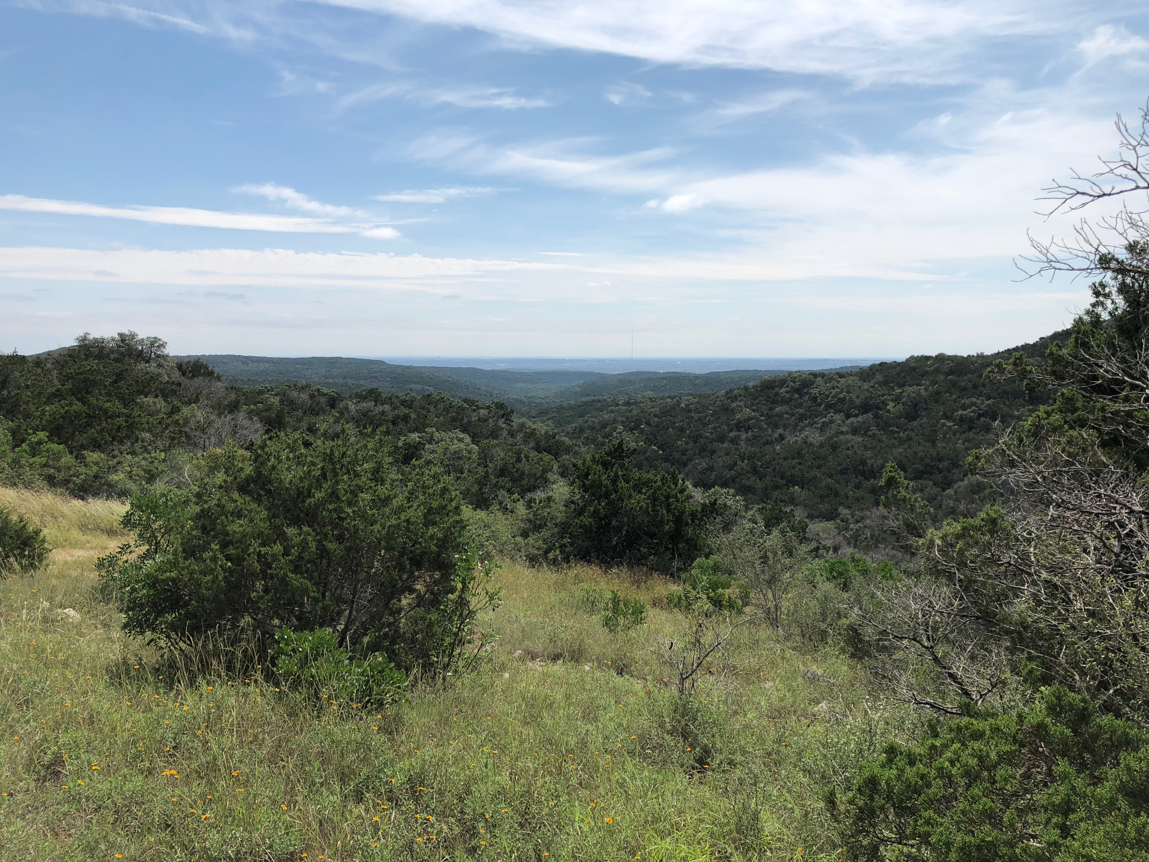 View of the Government Canyon State Natural Area from the Protected Habitat Area Backcountry Trails